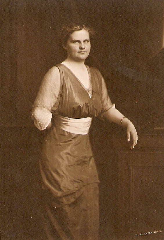 Archduchess Dolores of Austria